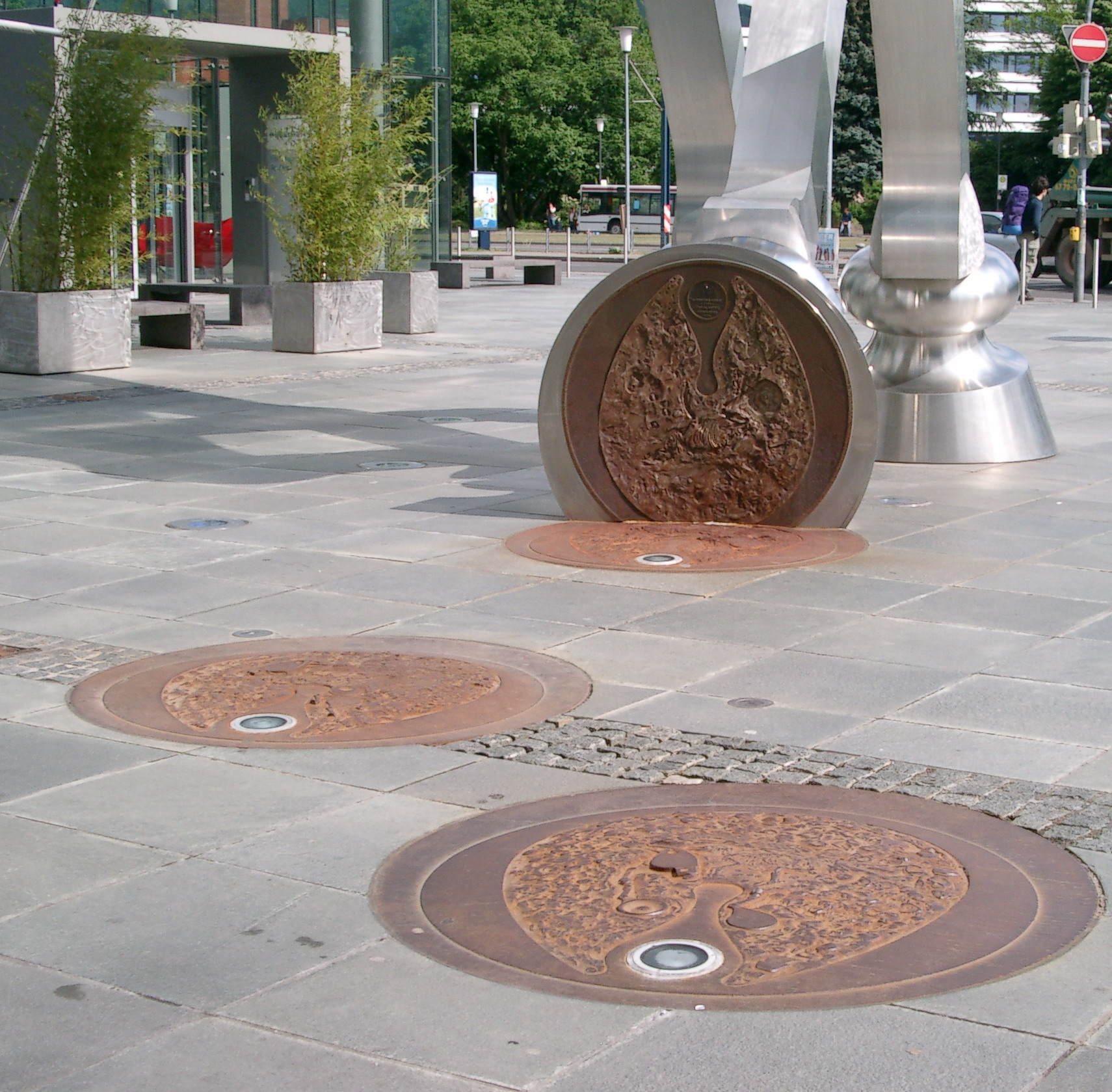 Footprints of the S-Printing Horse in Heidelberg, Germany. Own photograph